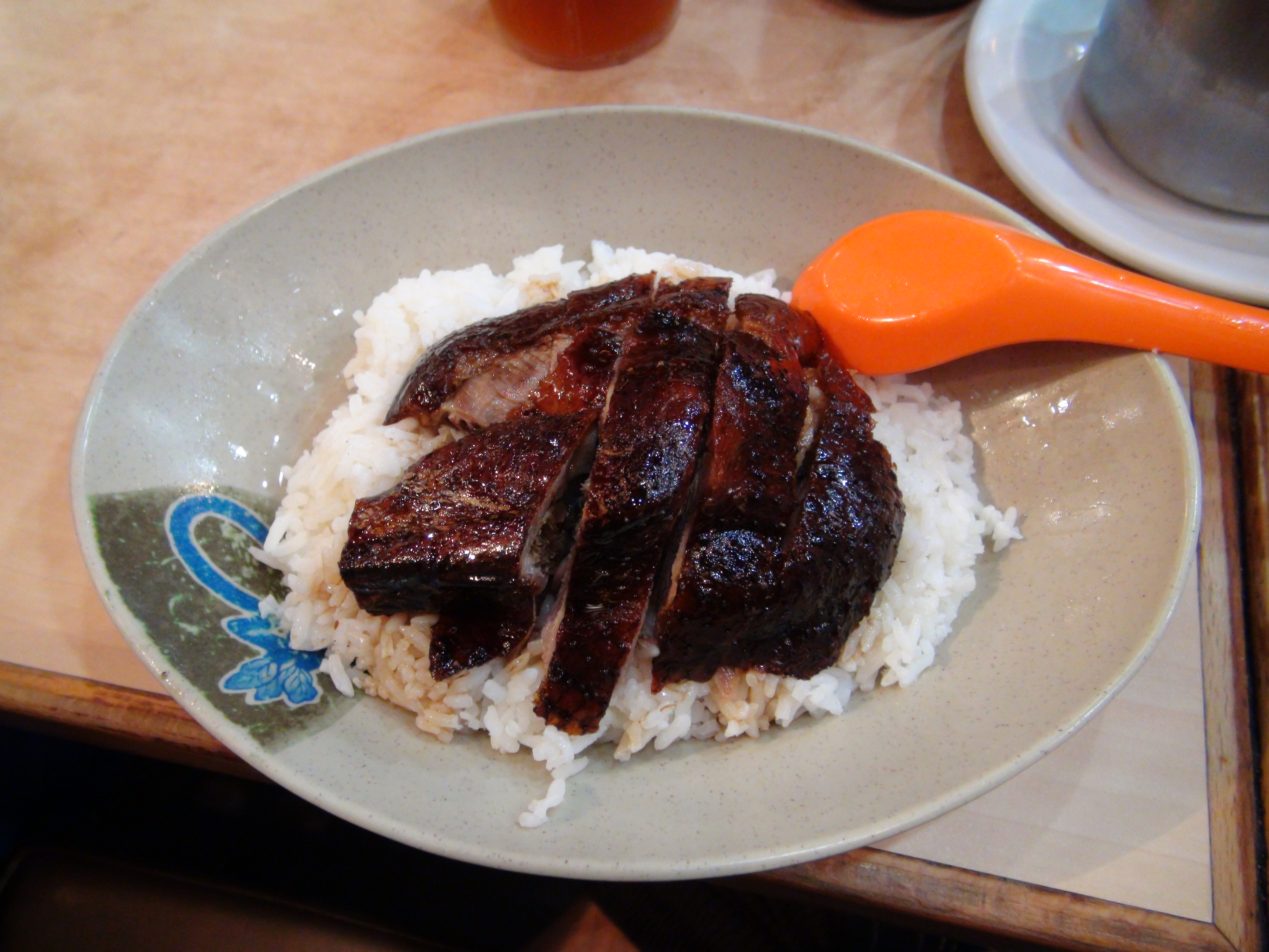 Roast goose(燒鵝), yat lok restaurant in Stanley Street, Central(中環), Hong Kong